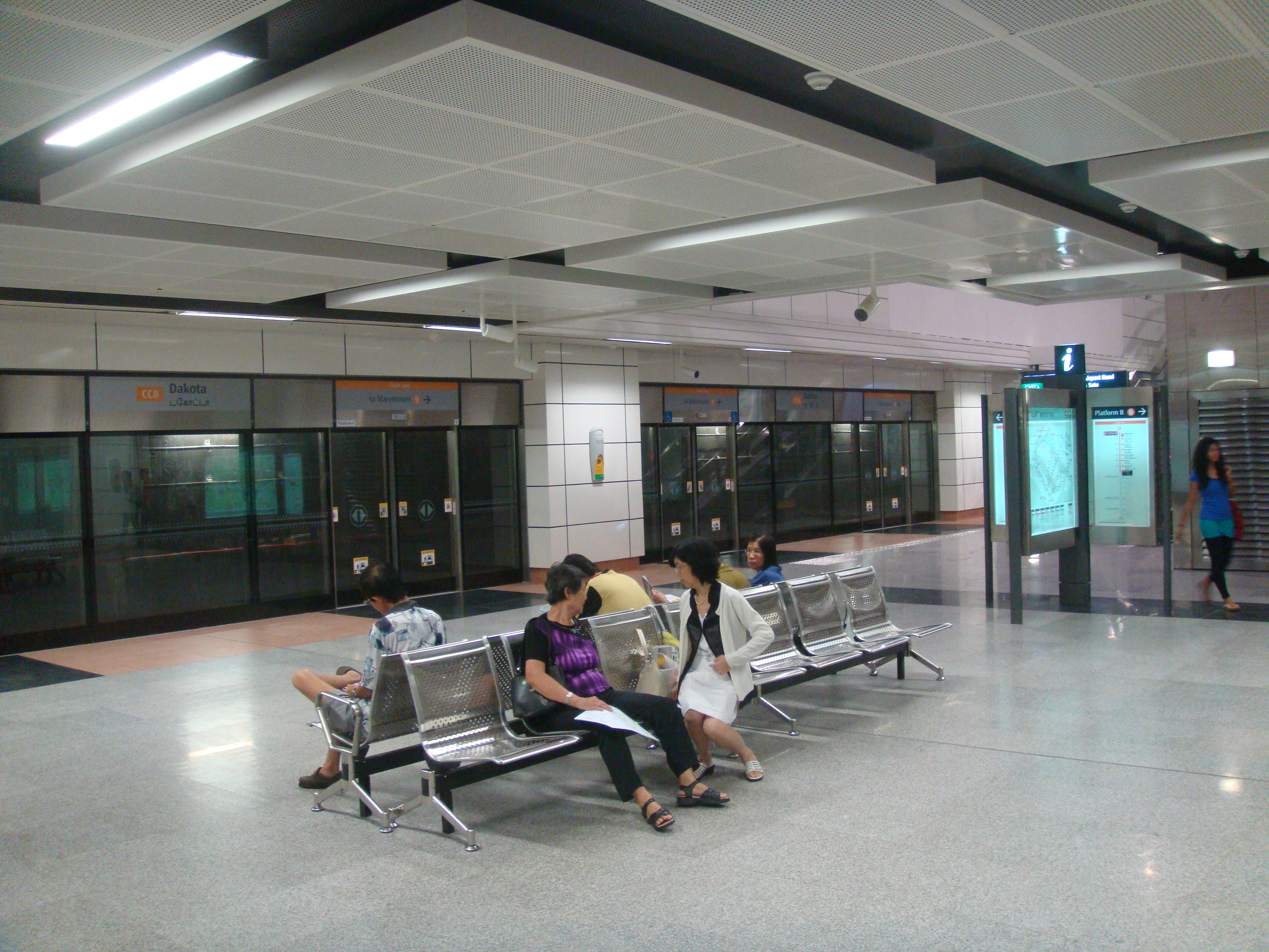 Circle Line platform of Dakota MRT Station, taken on the LTA Circle Line Discovery II Open House.